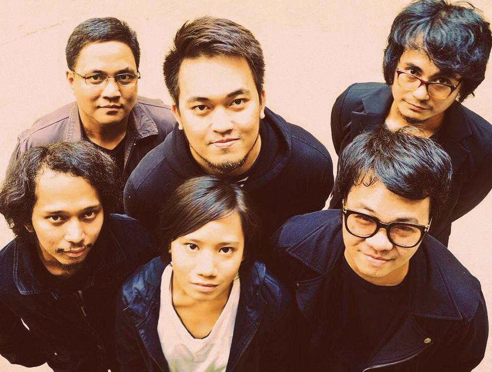 Redverb Studios. 2016